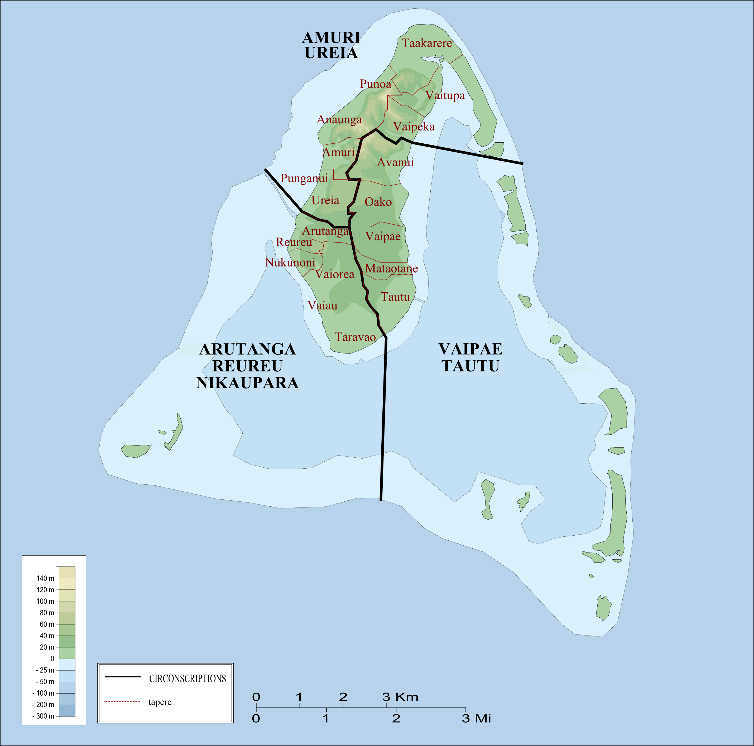 Circonscriptions électorales d'Aitutaki/Constituencies of Aitutaki